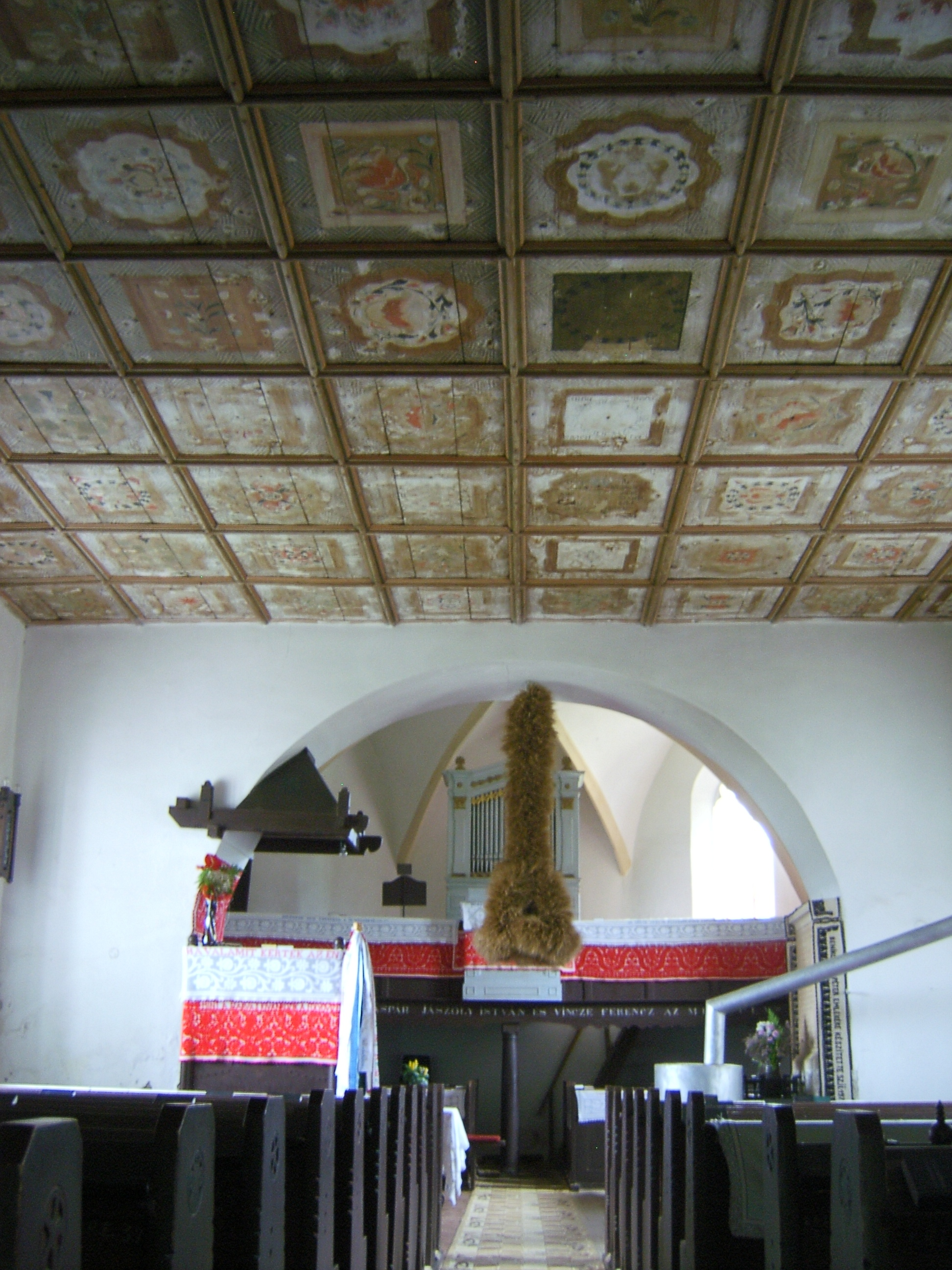 Intern view of the reformed church of Căpuşu Mic, Transylvania